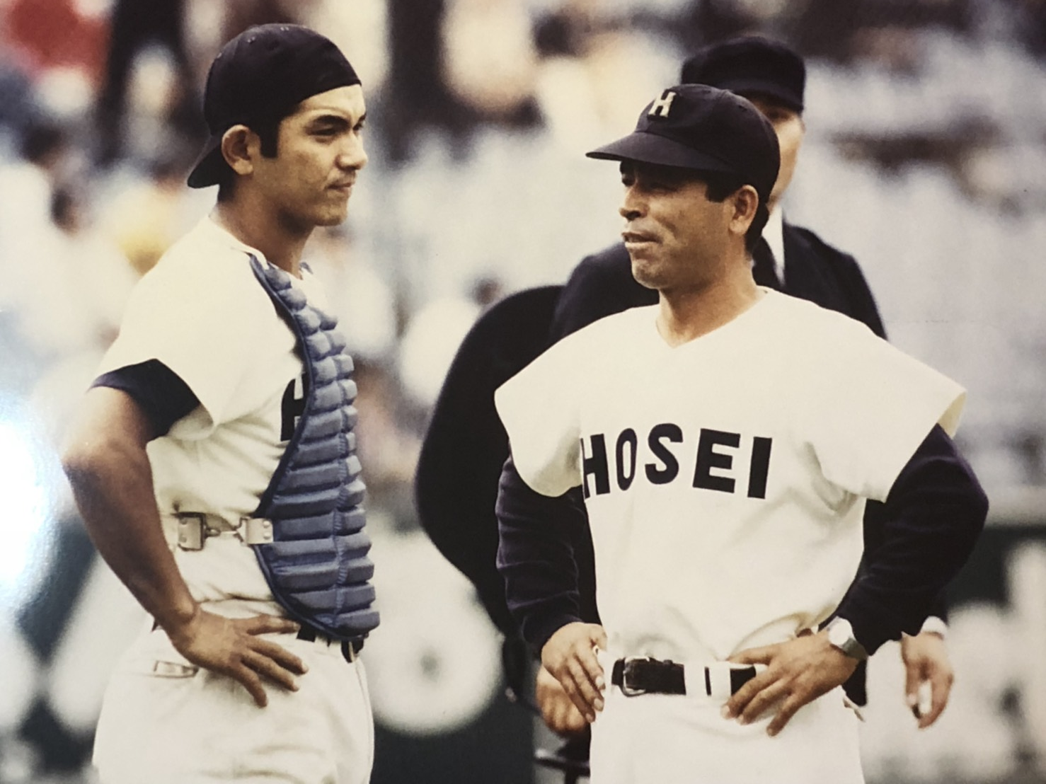 左:1982年 阪神ドラフト１位 木戸克彦 右:鴨田監督